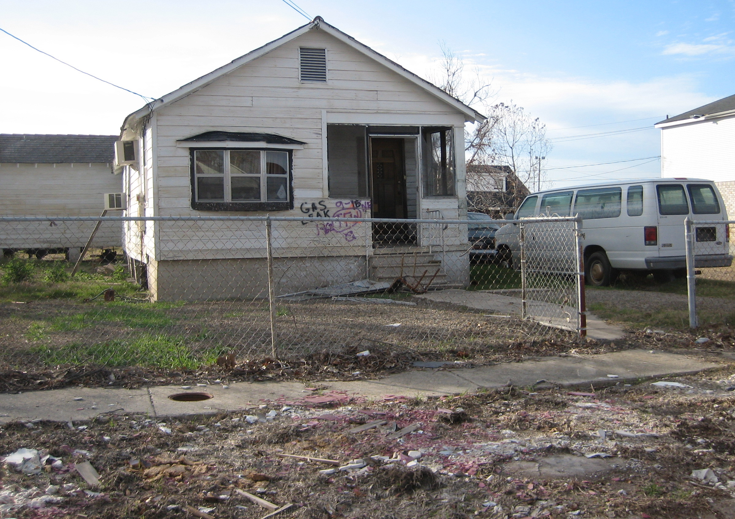 New Orleans after Hurricane Katrina: House in formerly flooded Desire neighborhood has notice painted on front "Gas leak". Photo by Infrogmation of New Orleans